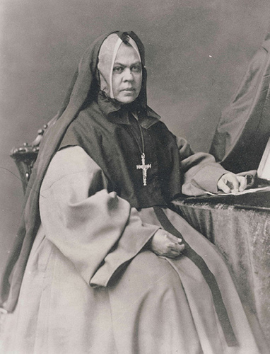 Élisabeth Bruyère (March 19, 1818 – April 5, 1876) was the founder of the Sisters of Charity of Bytown. She opened the first hospital in what would become Ottawa and the first bilingual school in Ontario.